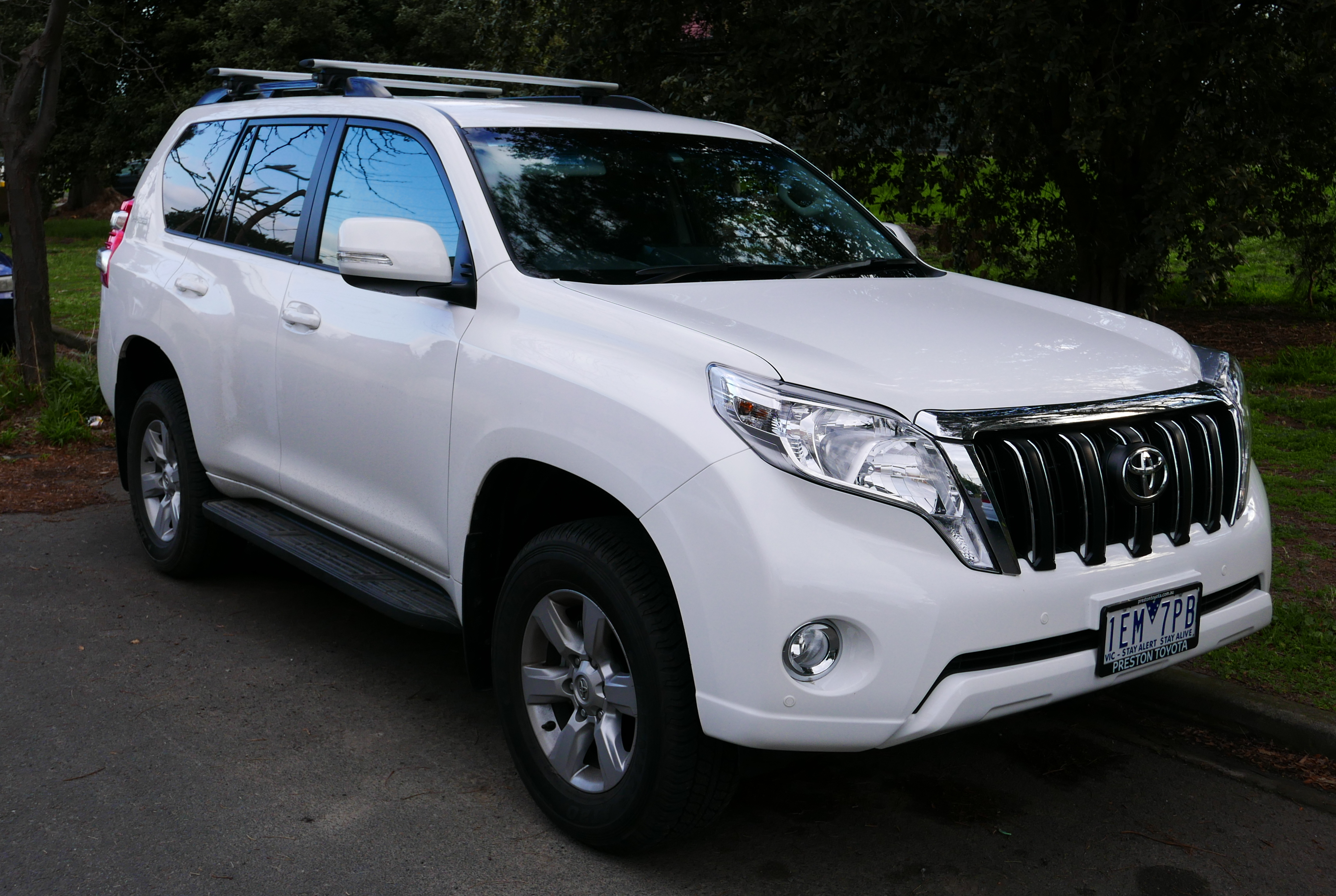 2015 Toyota Land Cruiser Prado (KDJ150R MY14) GXL 5-door wagon. Photographed in Northcote, Victoria, Australia. Vehicle registration enquiry resultsJurisdictionVictoriaRegistration1EM7PBChassis codeJTEBH3FJ30K166435Engine code1KD2490967Compliance date2015-04Year of manufacture2015